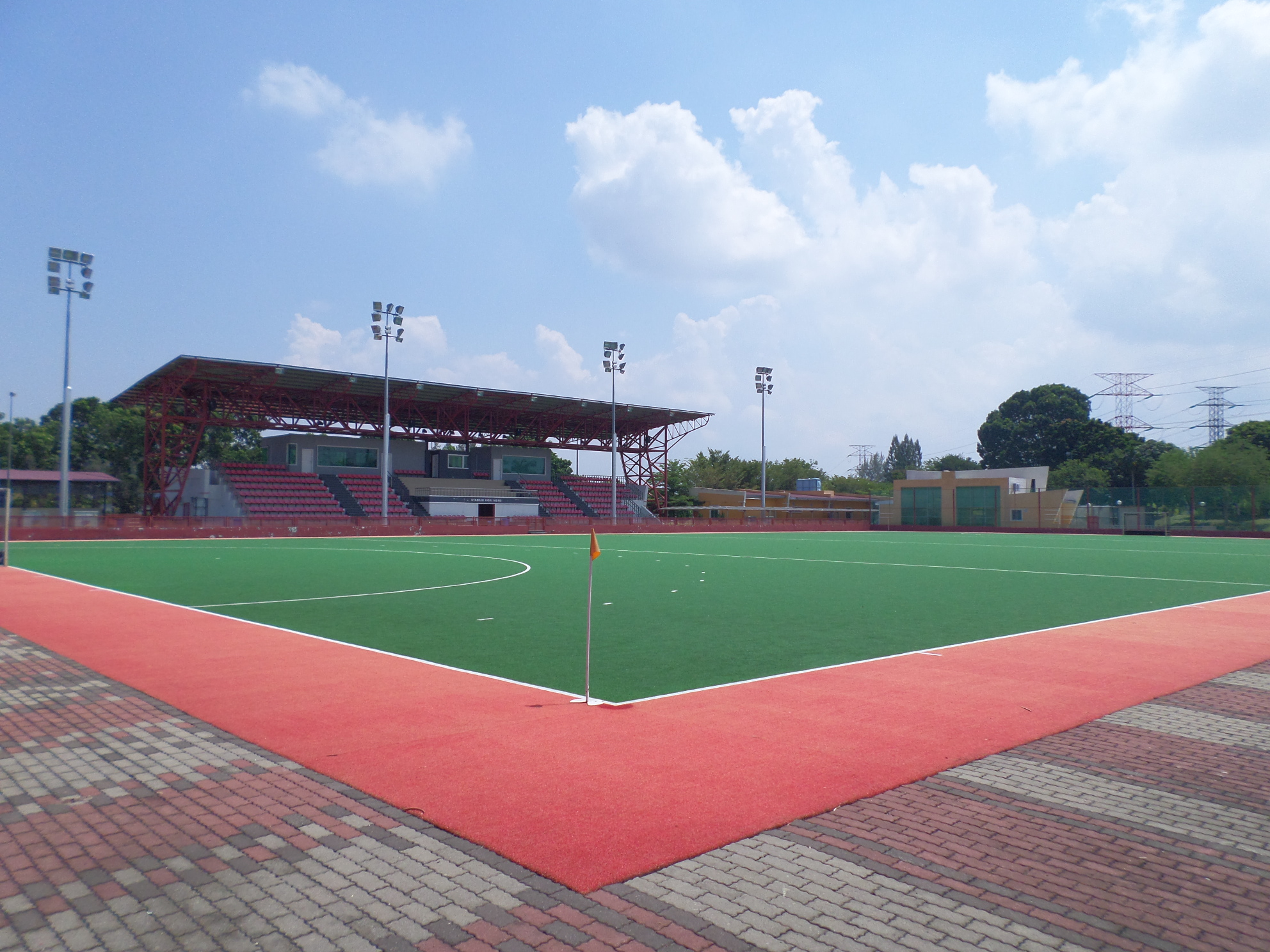 Historical Melaka City Council Hockey Stadium, Bukit Serindit, Central Melaka, Melaka, MalaysiaBahasa Melayu: Stadium Hoki Majlis Bandaraya Melaka Bersejarah, Bukit Serindit, Melaka Tengah, Melaka, Malaysia